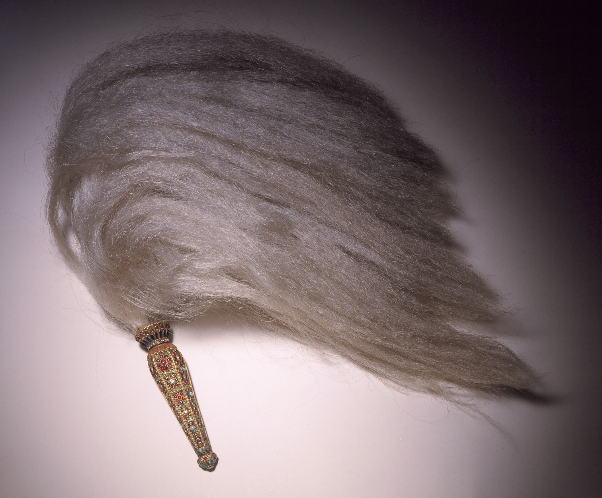 Nepal, circa 1800 Tools and Equipment Gilt copper alloy and gemstones; white yak-tail whisk Handle: 5 1/2 x 1 1/4 in. (13.97 x 3.18 cm) Purchased with funds provided by Harry and Yvonne Lenart (AC1998.136.1) South and Southeast Asian Art